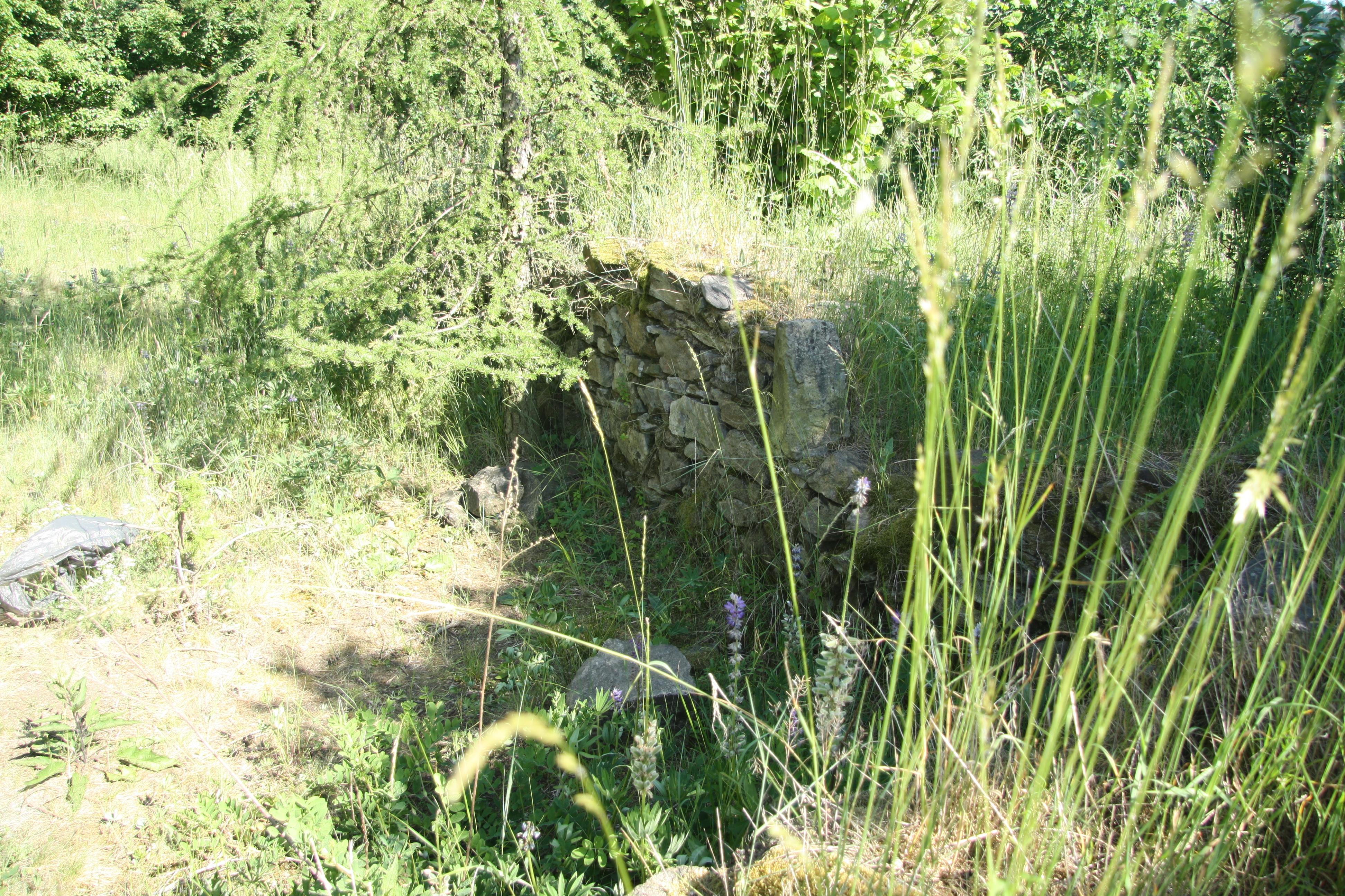 Wall of Mstěnice Castle near Hrotovice, Třebíč District.